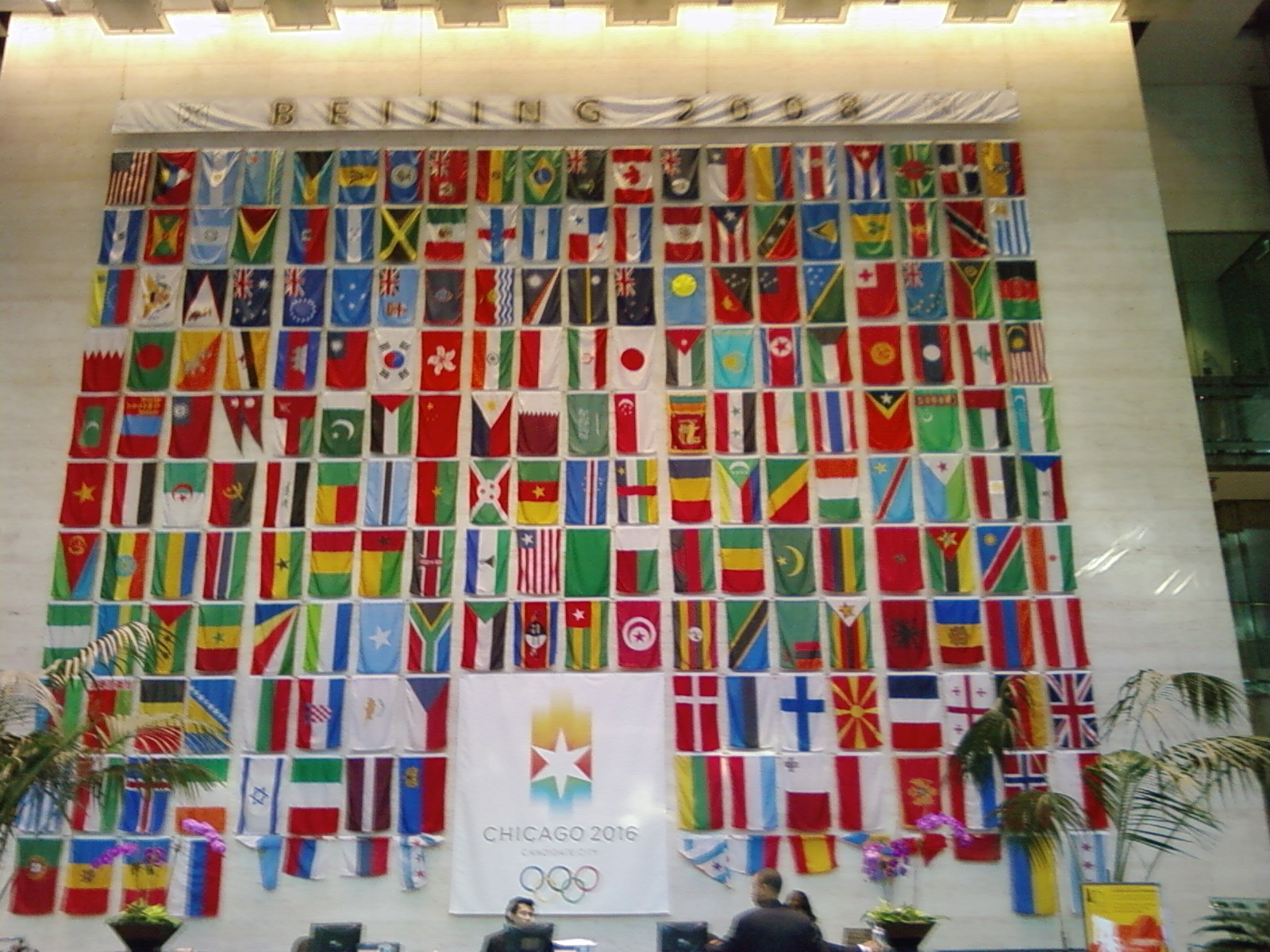 The Sears Tower lobby showing the flags of each nation in the world for Chicago's 2016 Summer Olympic bid